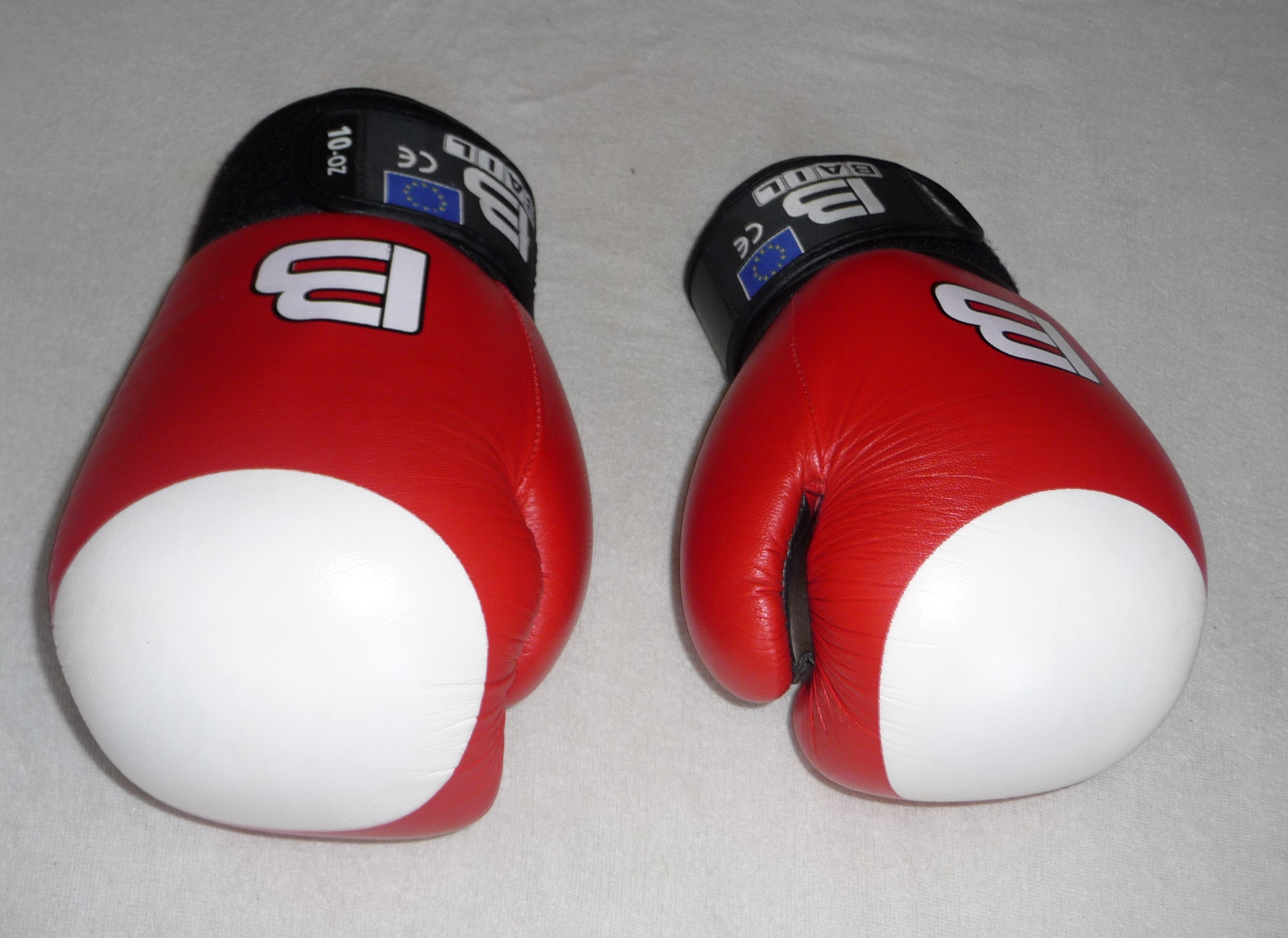 Red boxing gloves Bail 10-OZ